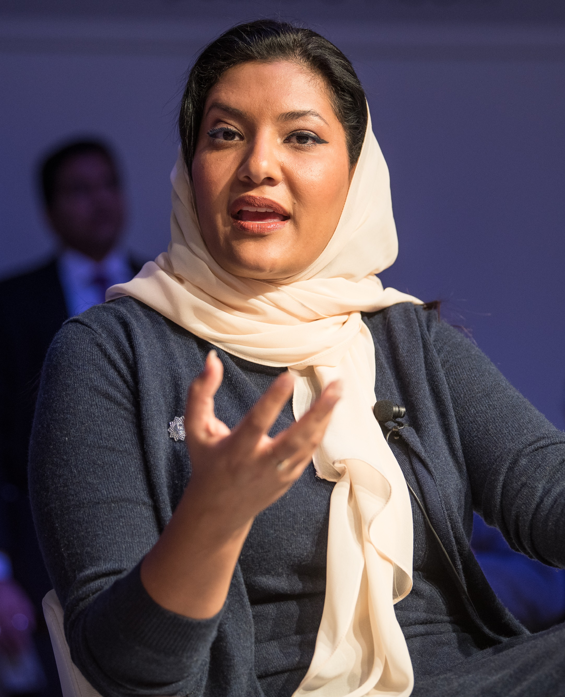 Princess Reema Bint Bandar Al-Saud, Vice-President for Development and Planning, Saudi Arabian General Sports Authority, during the Session "Building Saudi Arabia's Future Economy " the World Economic Forum in Davos, January 25, 2018